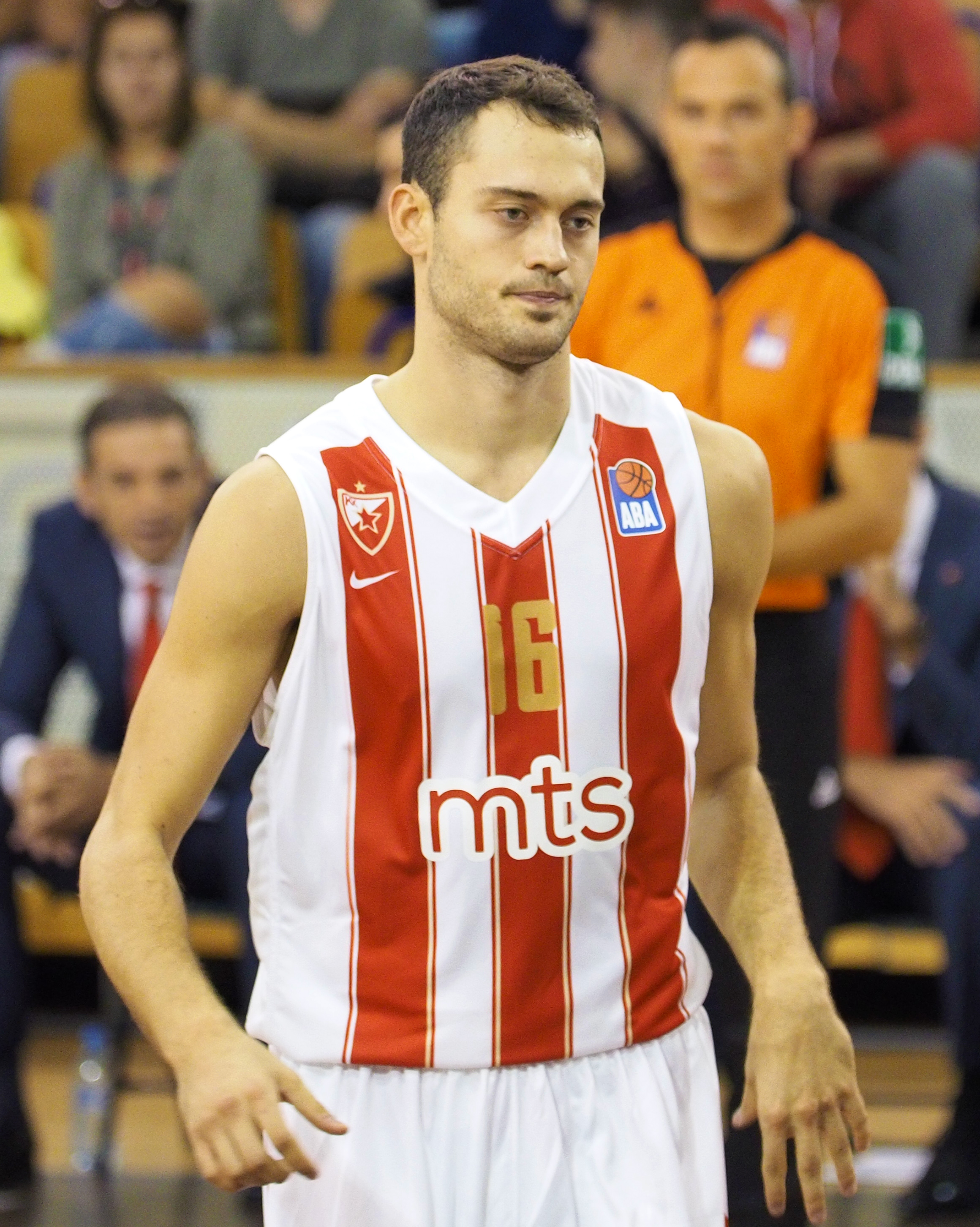 Stefan Janković, basketball. team Crvena zvezda (from Serbia), 2017. This photograph was taken with a Olympus E-M1.